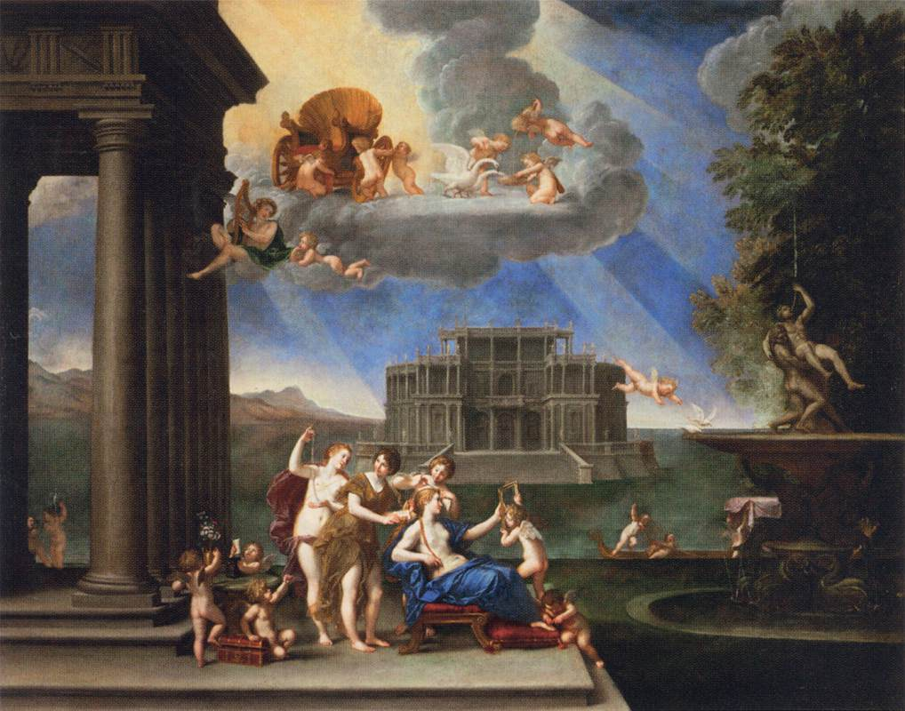 . Venus is at her toilet on the shores of a lake in front of a marvelous palace to seduce Adonis. Some cherubs are prepairing her chariot and feeding the swans that pull it.